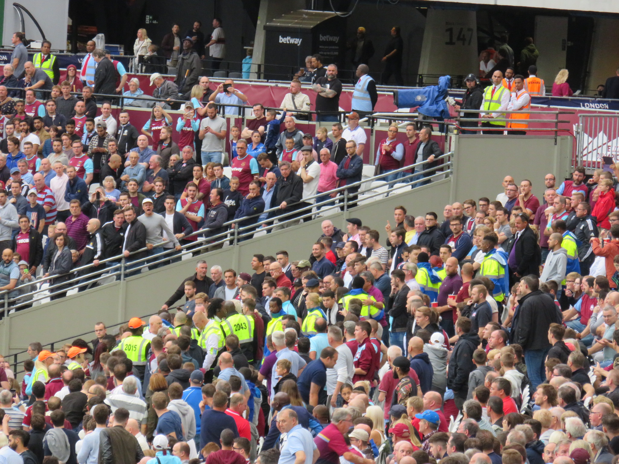 Stewards attempt to control fans during a West Ham United game at the London Stadium.